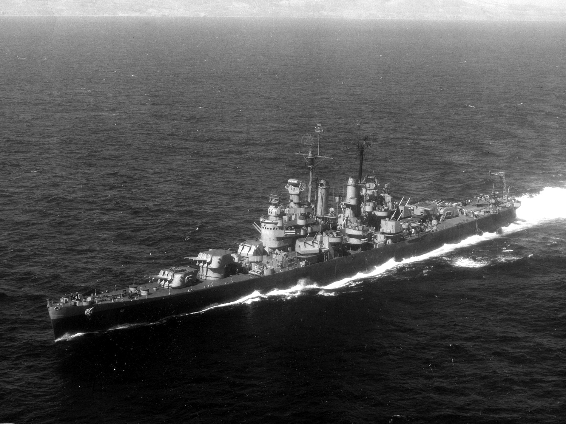 The U.S. Navy light cruiser USS Columbia (CL-56) underway off San Pedro, California (USA), in 1945. She is painted in Camouflage Measure 22.